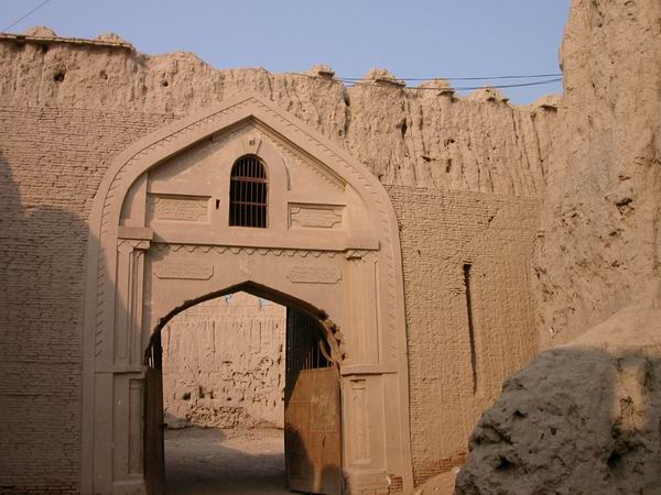 Dalel Dero Fort